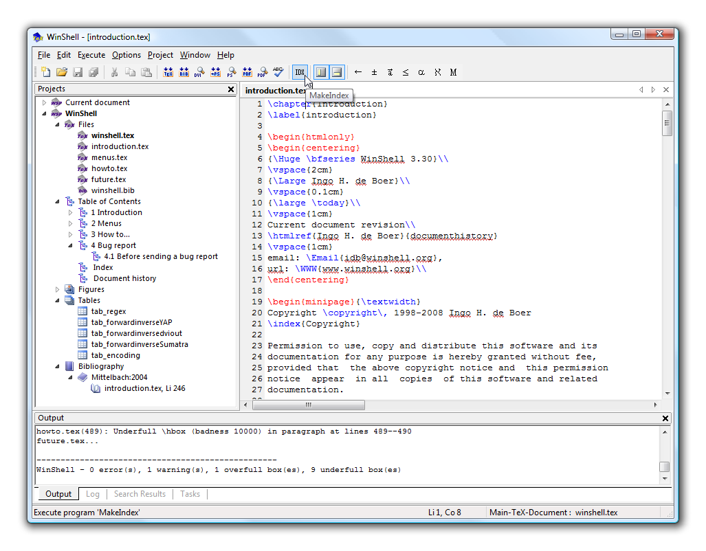 WinShell main window